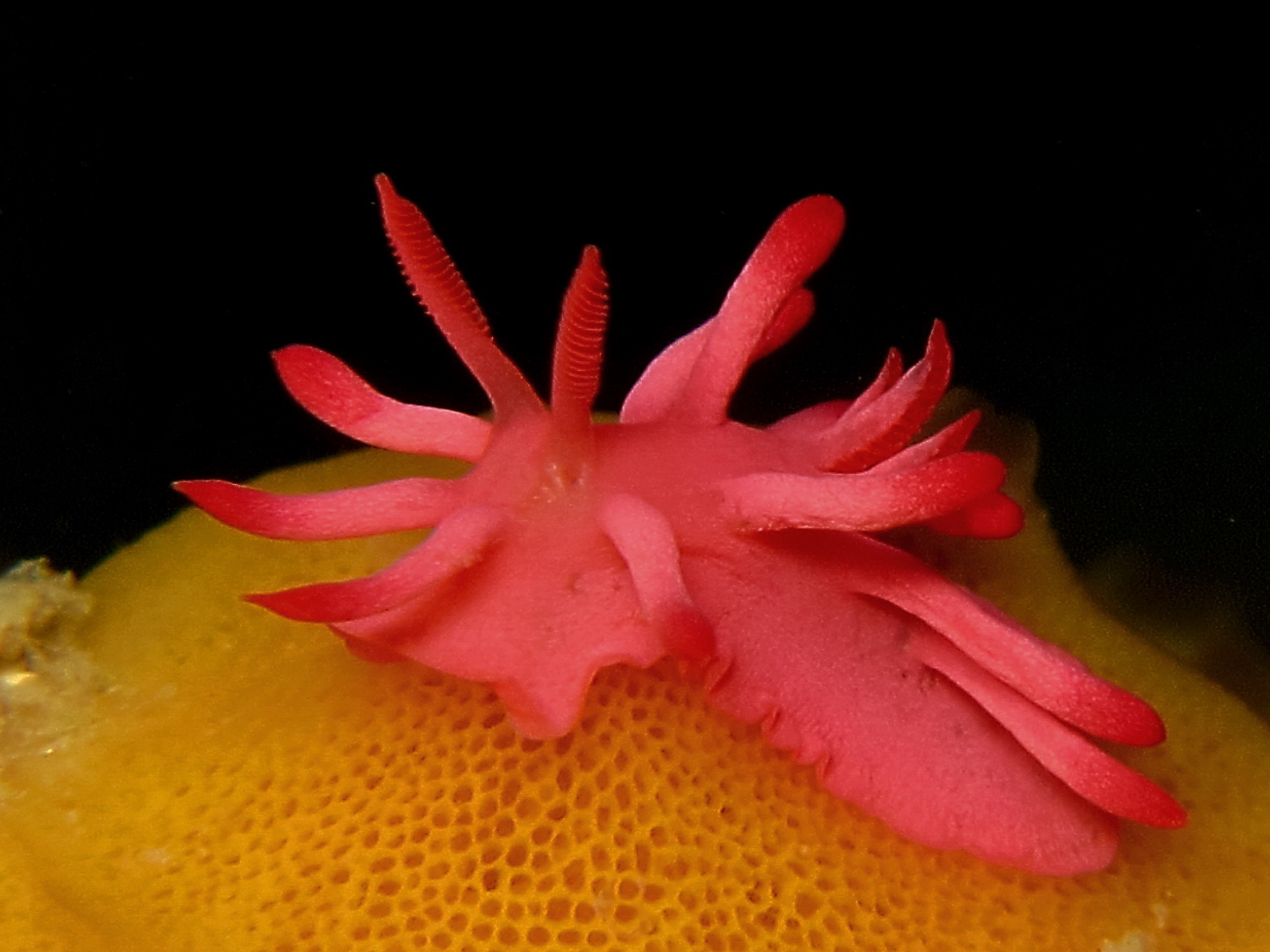 Okenia atkinsonorum, Nelson Bay, New South Wales. Photographed at Fly Point, 40-50 feet